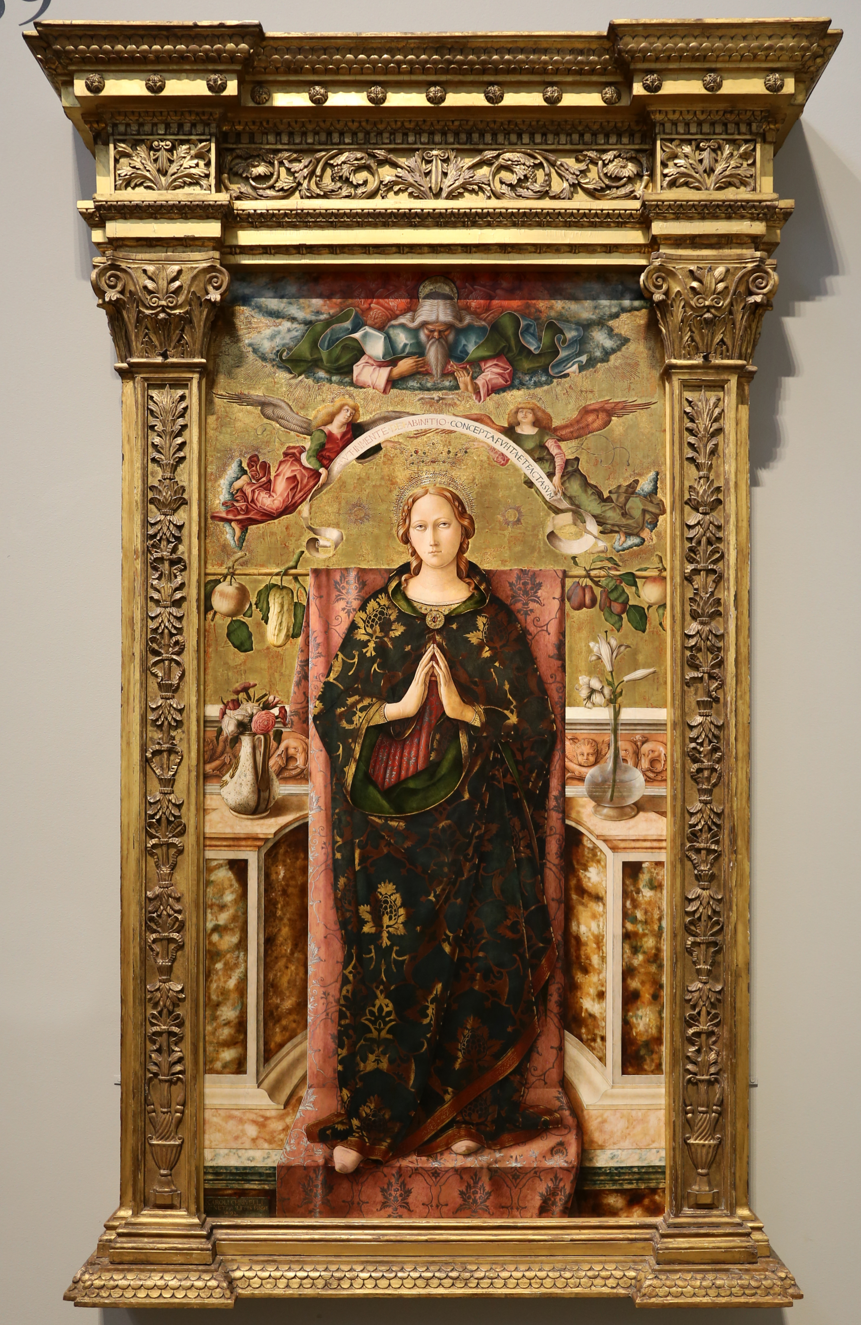 Immaculata by Carlo Crivelli